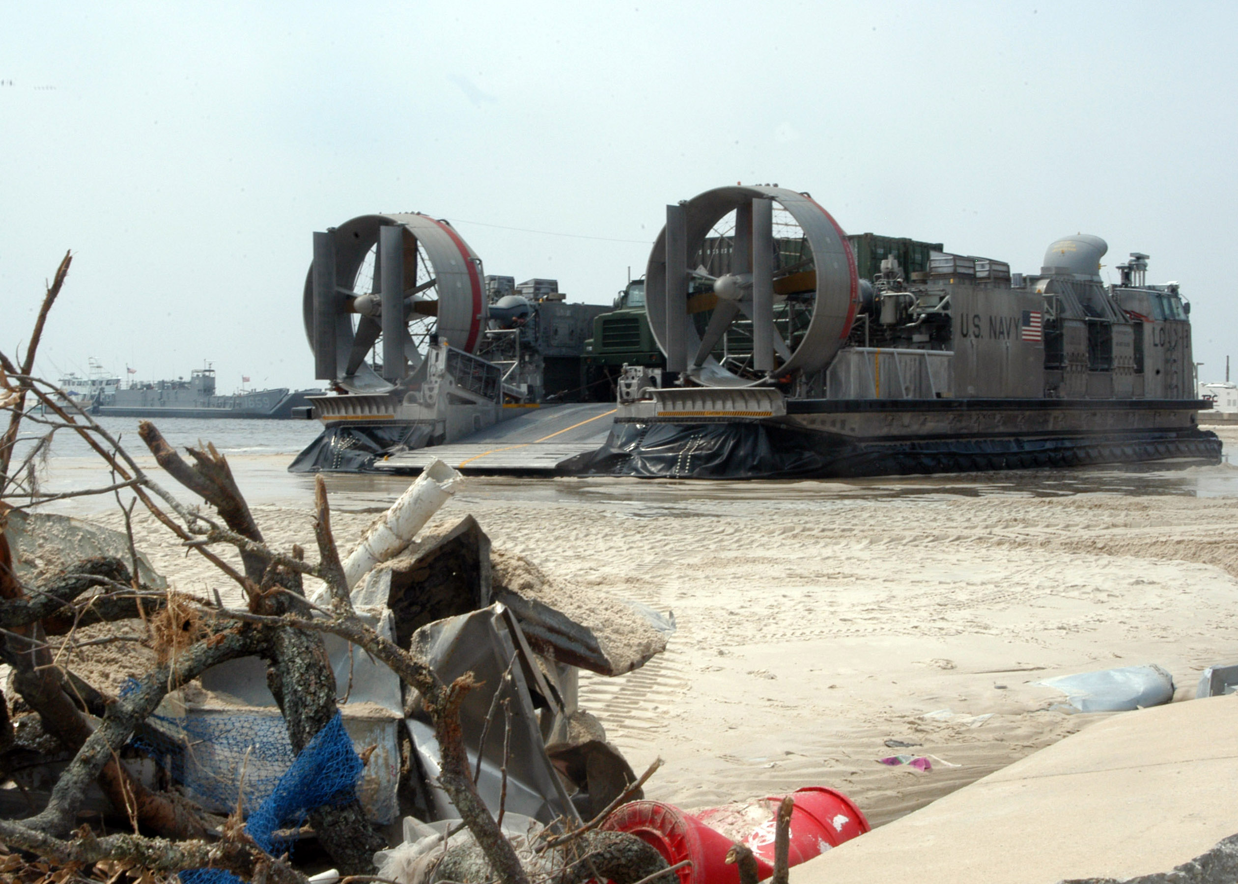 Biloxi, Miss. (Sept. 4, 2005) – A Landing Craft, Air Cushion (LCAC), from the amphibious assault ship USS Iwo Jima (LHD 7), prepares for offload of heavy equipment assigned to Amphibious Construction Battalion Two (ACB-2), on the shores of Biloxi, Miss., to render assistance to Hurricane Katrina survivors. The equipment was transported via Landing Craft, Air Cushion (LCAC) from the amphibious assault ship USS Iwo Jima (LHD 7). The Navy's involvement in the Hurricane Katrina humanitarian assistance operations is led by the Federal Emergency Management Agency (FEMA), in conjunction with the Department of Defense. U.S. Navy photo by Lithographer 1st Class Edward S. Kessler (RELEASED)